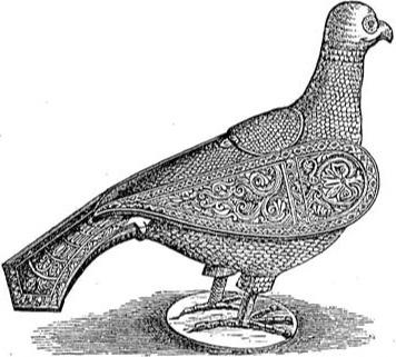 A peristerium (Eucharistic dove) which can be hung above the altar.